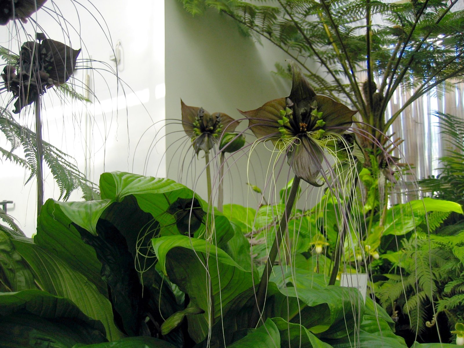 batflower, photographed in Berlin-Marzahn